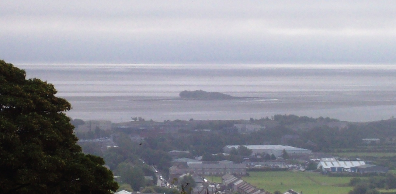 Chapel Island, from Ulverston